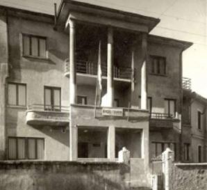 Old image from the book 'Vilat e Tiranës', V.Bushati